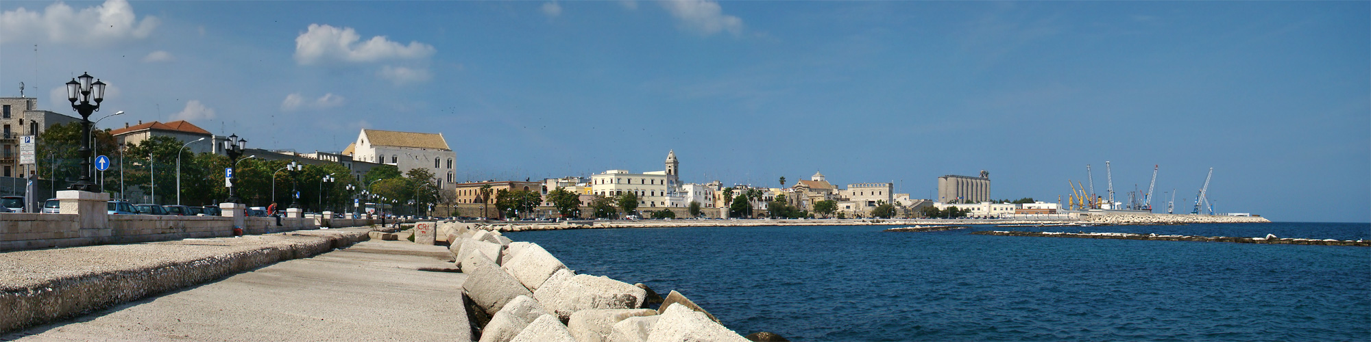 Bari, Apulia, Italy. View of the eastern seafront of the old town. The Basilica of Saint Nicholas can be seen in the centre left, and the new harbour on the right.